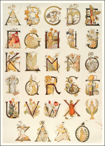 The Princes' Flower Alphabet